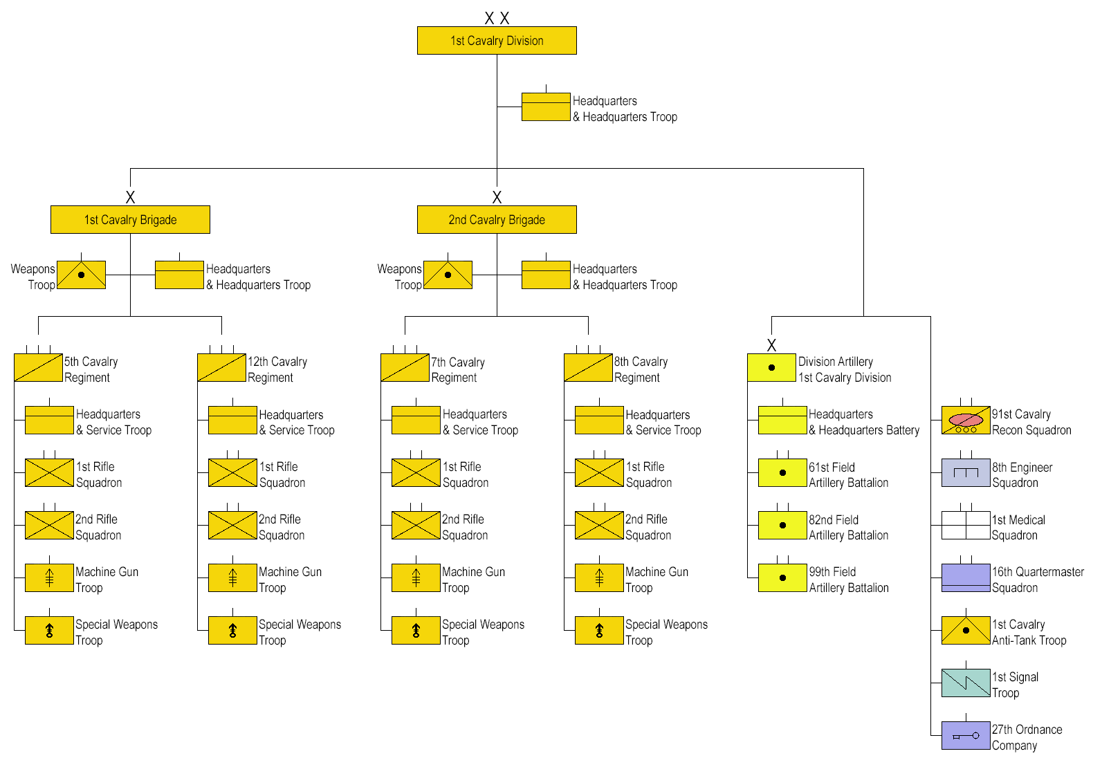 Structure of the 1st Cavalry Division in WWII